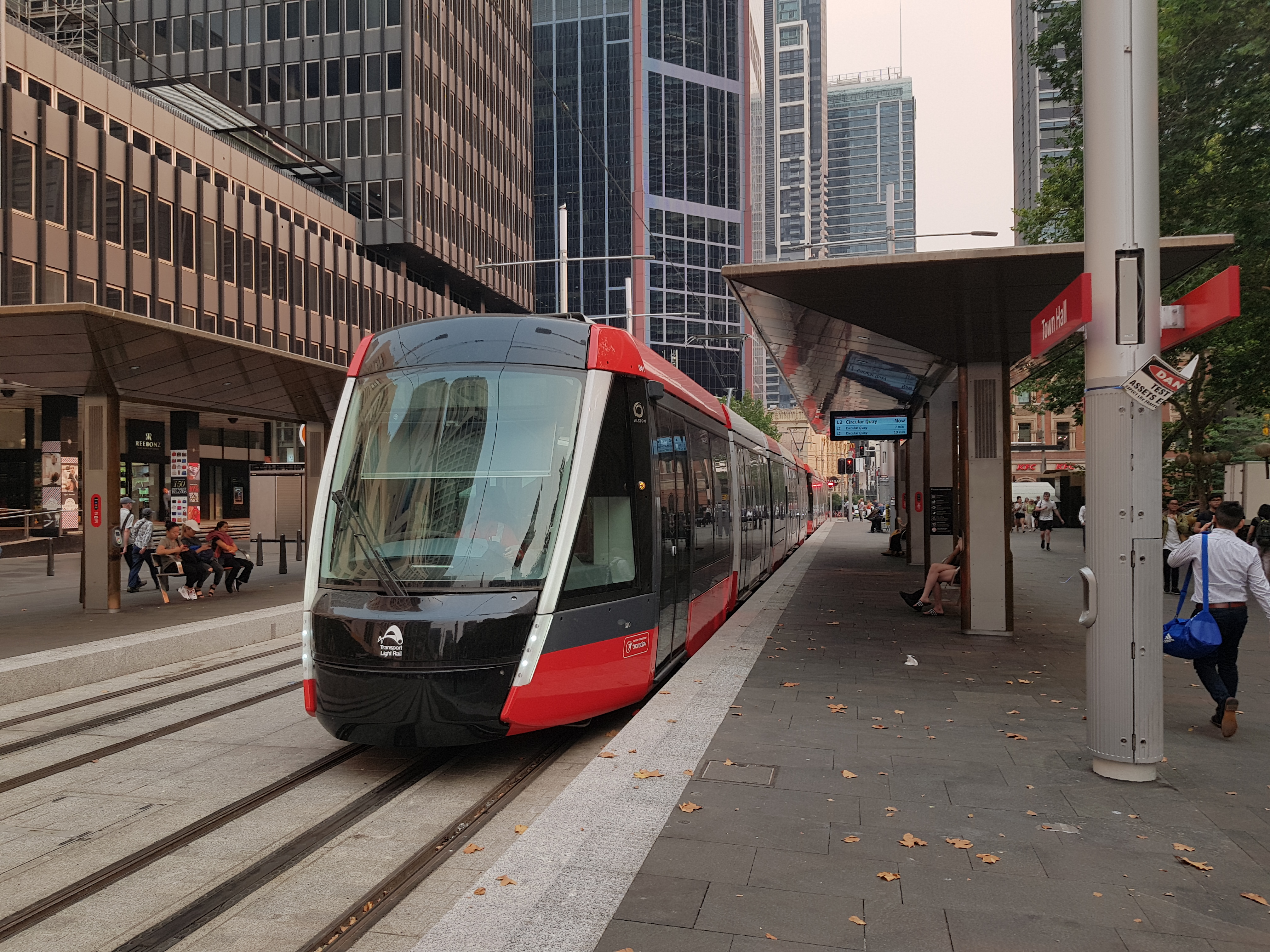 Tram at Town Hall light rail stop, Sydney